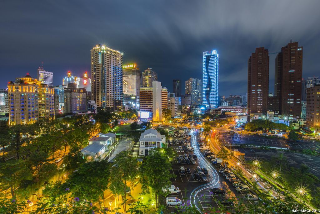 Skyline of old city centre of Taichung in 2015